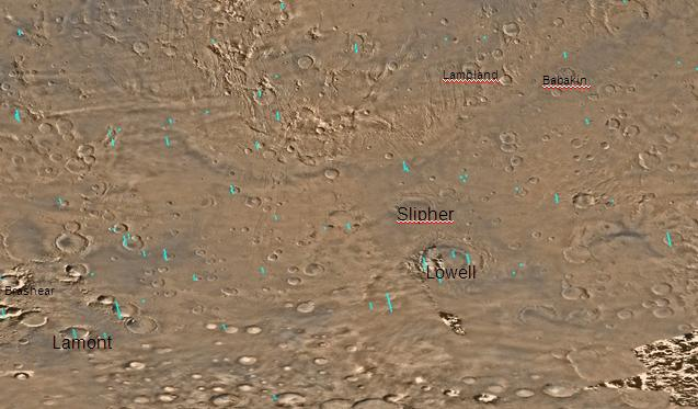 Map of Thaumasia quadrangle with labels. The small, colored rectangles represent image footprints for the narrow angle camera on the Mars Global Surveyor. Some are about 1 mile wide, the otheers are about 2 miles wide. The map was made by the U.S. Geological survey for NASA.